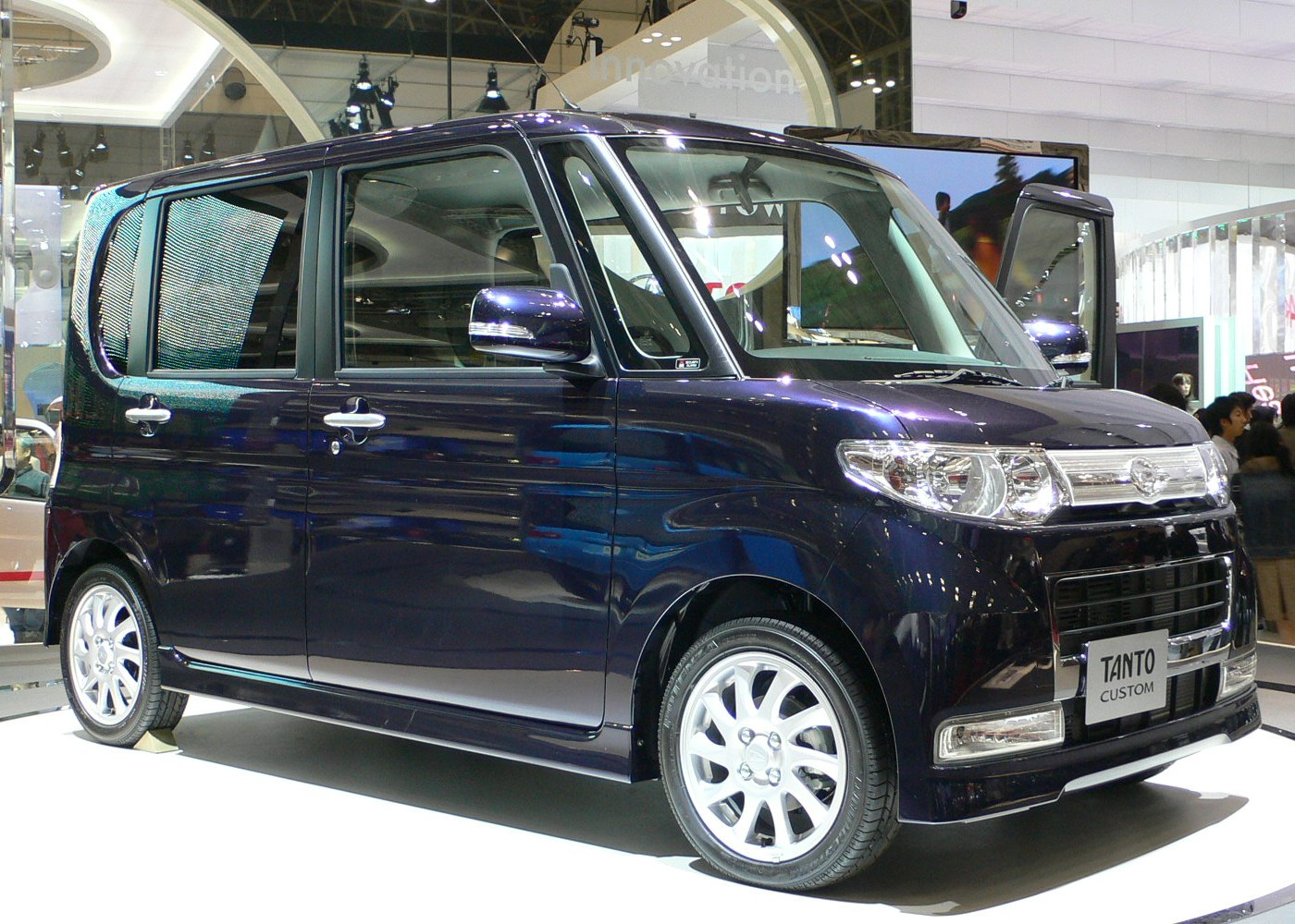 2nd generation Daihatsu Tanto Custom (2007 - )photographed in Tokyo Motor Show 2007